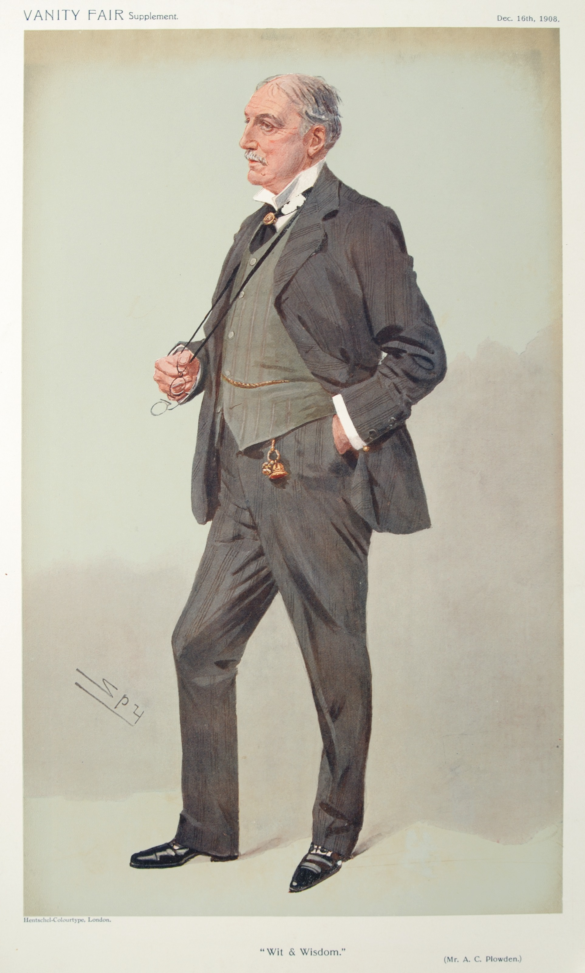 Caricature of Alfred Chichele Plowden (1844-1914), Magistrate. Caption read "Wit and Wisdom".